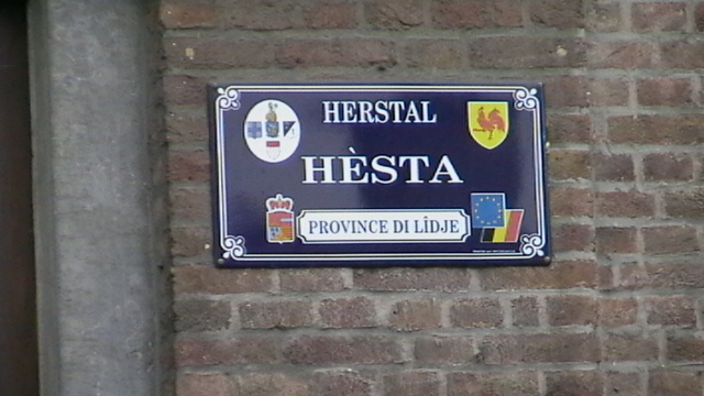 Street sign of the main square in Herstal, written in Walloon (Hesta; province di Lidje). Walon: Plake a Hesta metowe sol måjhon-comene.